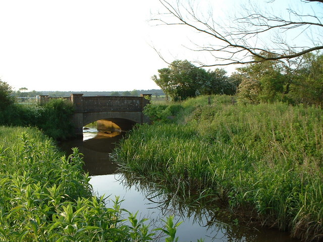 Bridge over the river Babingley, Norfolk. This bridge once carried the main coast road from King's Lynn to Hunstanton.